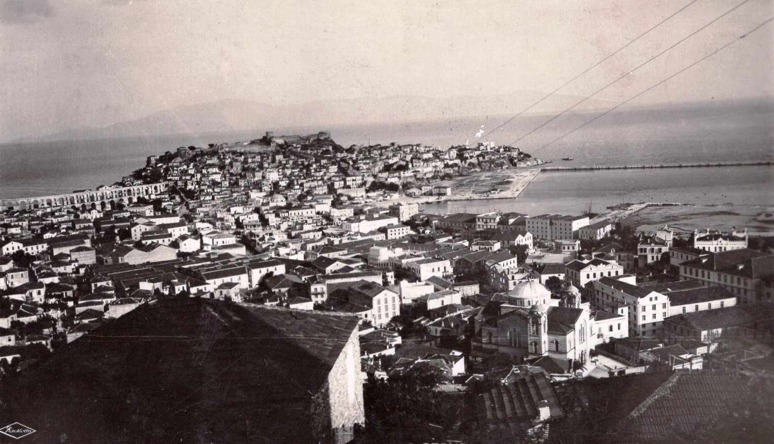 Postcard of Kavala, from 1942 This media file is produced by Wikipedian in Residence in Category:Wikipedian in Residence at DARM in 2016.